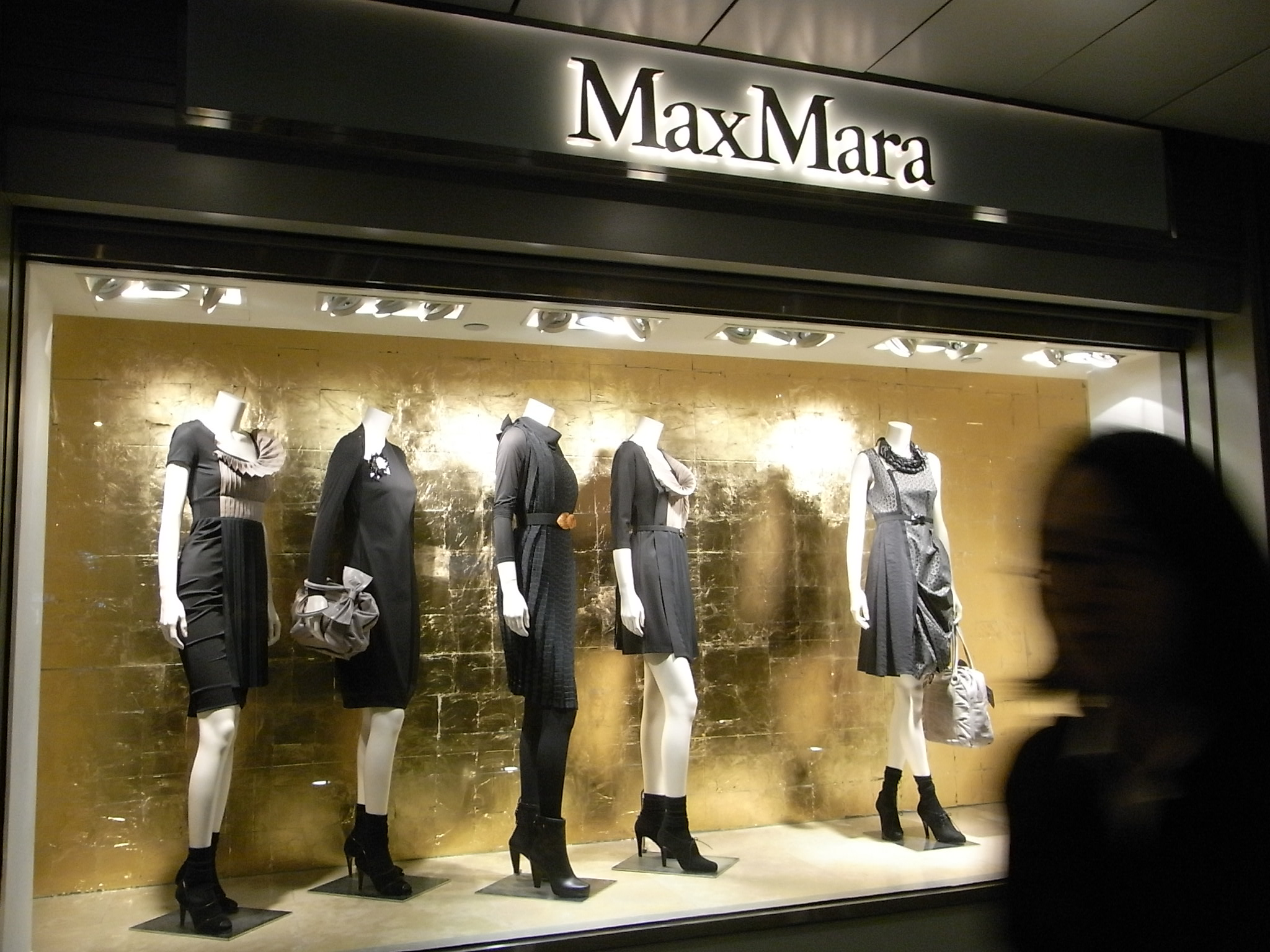 中環太子大廈Max Mara